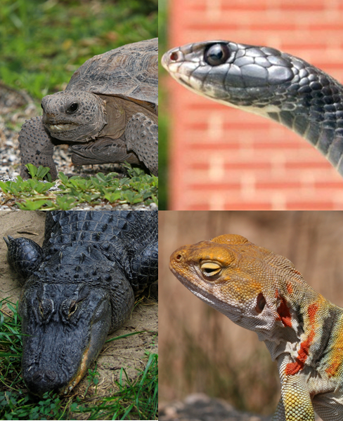 A montage of four state reptiles of the United States. Clockwise from top left, they are: the American alligator (Alligator mississippiensis; Florida, Louisiana, and Mississippi), the garter snake (Thamnophis; Massachusetts), the gopher tortoise (Gopherus polyphemus; Georgia), and the common collared lizard or mountain boomer (Crotaphytus collaris; Oklahoma).